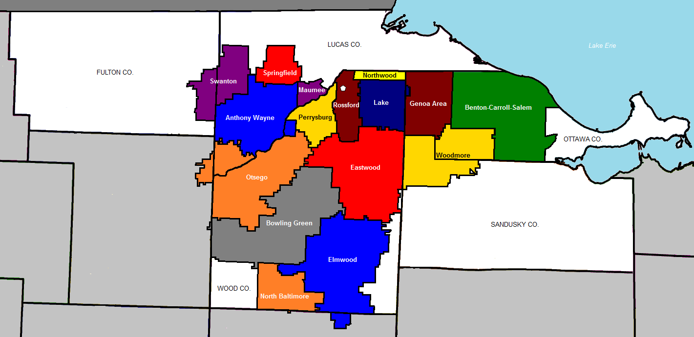 Map showing the school districts that are part of Penta Career Center. Other information The map was created referencing an image that the Public Utilities Commission of Ohio provided online, but no longer does.